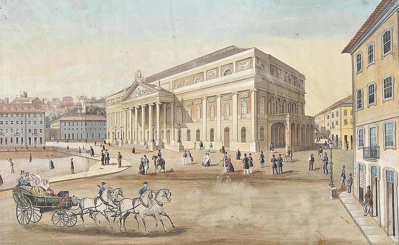 Queen Maria II Theatre, in Rossio Square, Lisbon, Portugal (watercolour on paper, 2nd half of the 19th century, certainly between 1846 [opening of the Queen Maria II Theatre] and 1887 [beginning of the works of Rossio Railway Station, absent in the picture].)